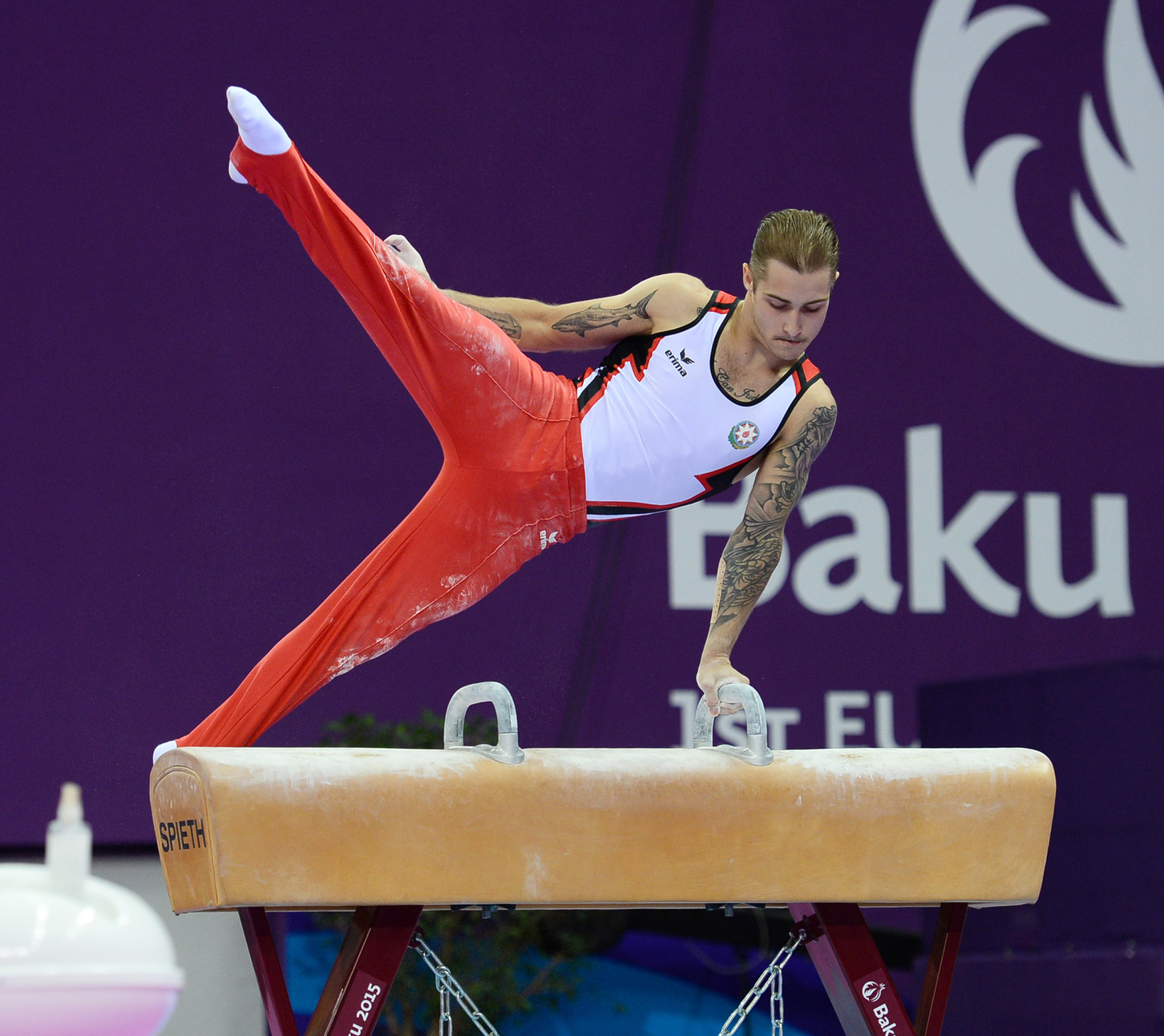 rtistic gymnastics at the 2015 European Games